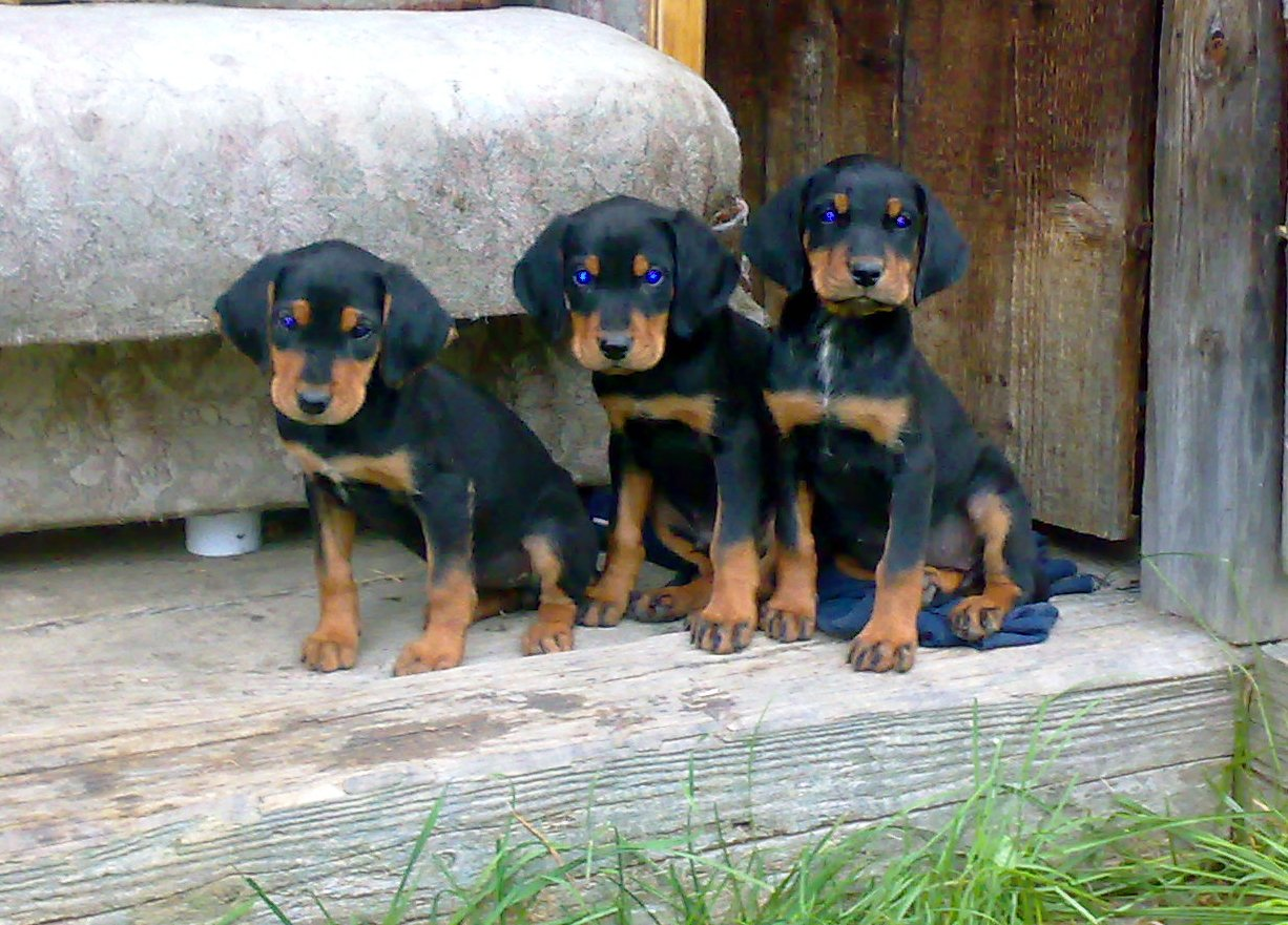 Цуценята_українського_гірського_гончака